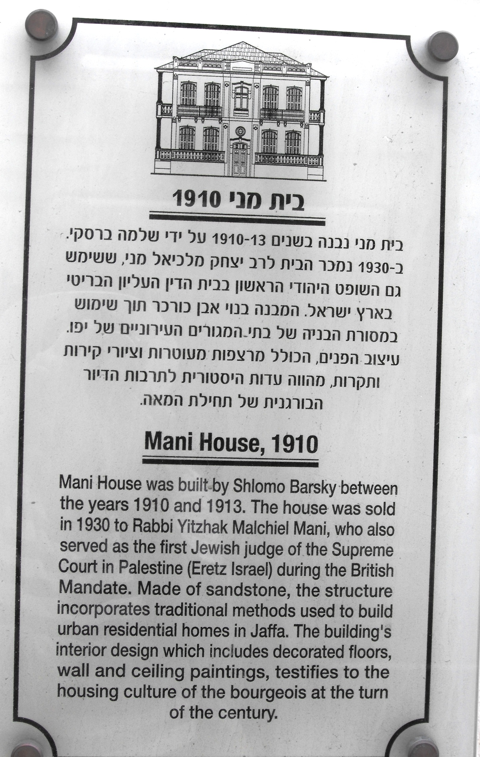 Architecture of Israel